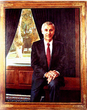 Official portrait of George Deukmejian as Governor of California